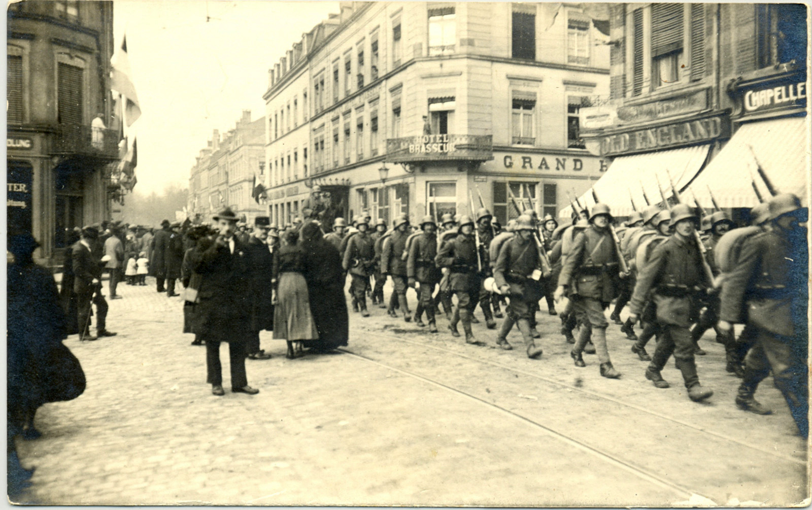 20 november 1918: German troops under commanding cavalry general Georg von der Marwitz on their retreat through Luxembourg City .